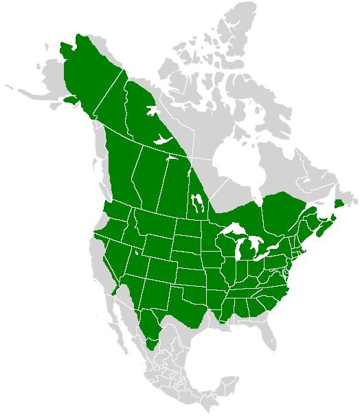 A range map showing the distribution of the Clouded Sulphur (Colias philodice) in North America